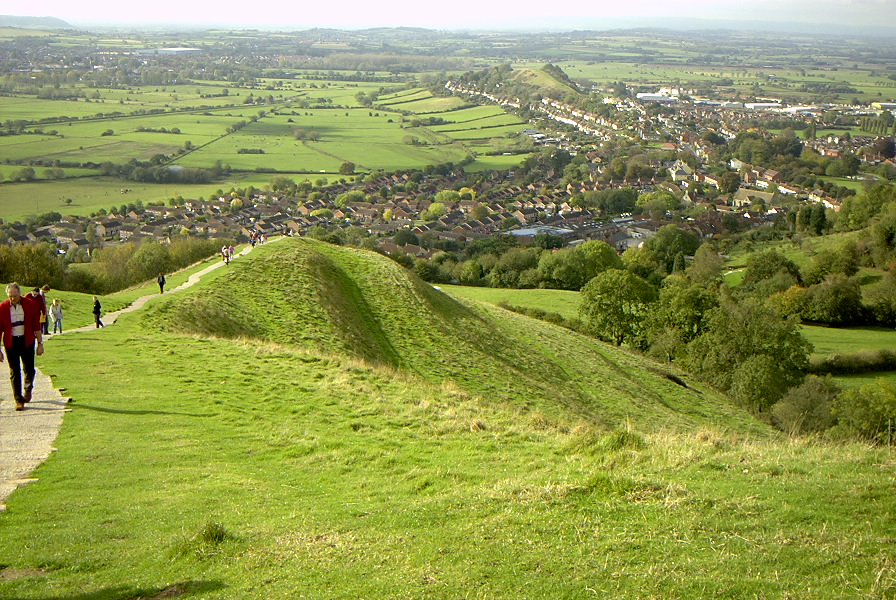 View from Glastonbury Tor to the town of Glastonbury (also note the shape of the hill!)